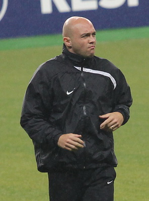 Vladimír Leitner